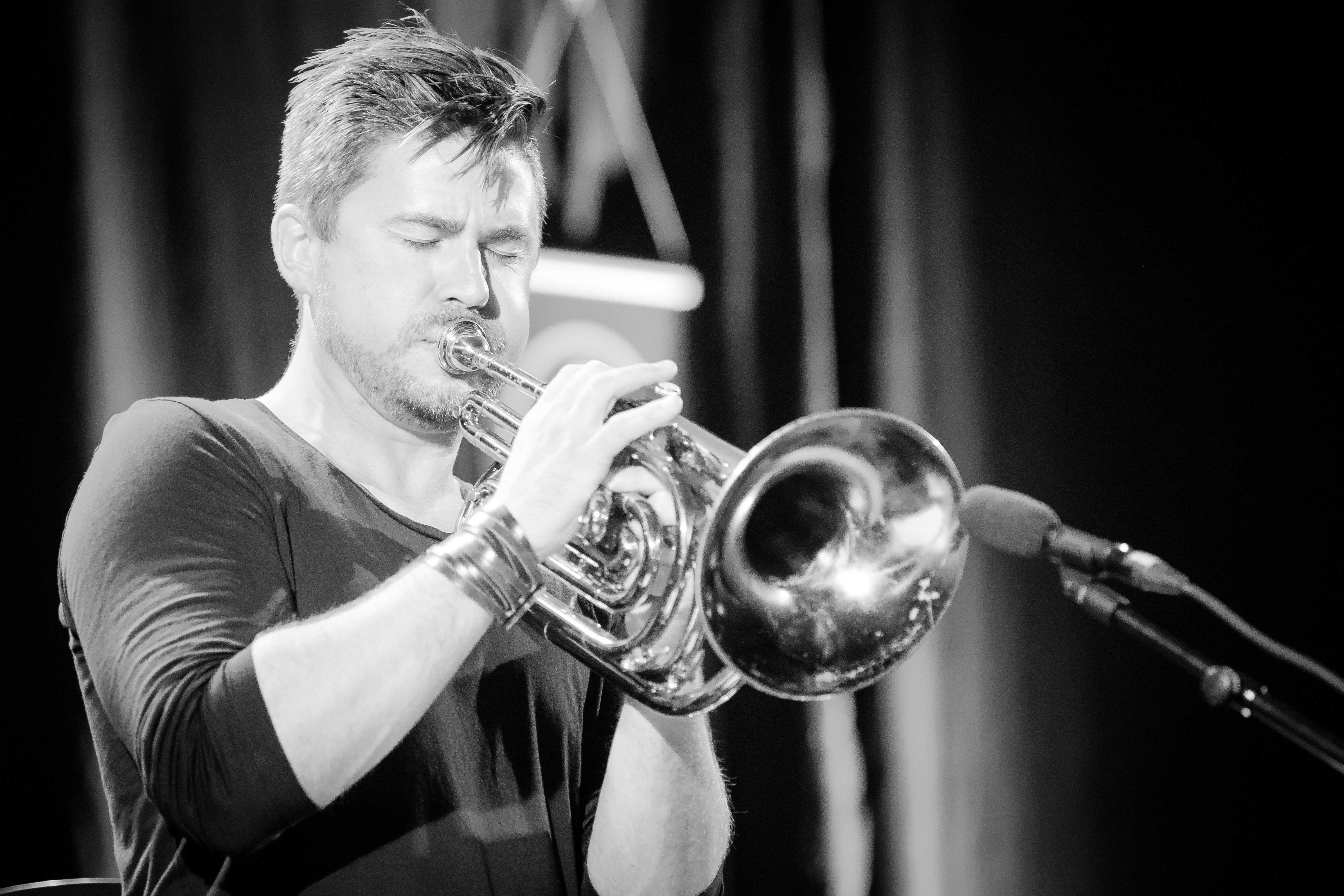 Daniel Herskedal at Thon Hotel Jølster. The concert was part of Jazz på Jølst and took place on 13. October 2018 in Jølster. Lineup: Daniel Herskedal (tuba) Jakop Janssønn (percussion) Helge Lien (piano) Bergmund Skaslien (viola)